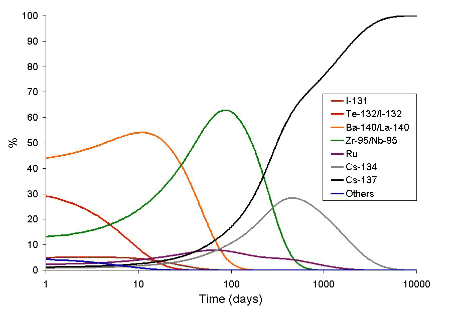 Isotope share of the dose due to external gamma rays from idealised chernobyl fallout against time